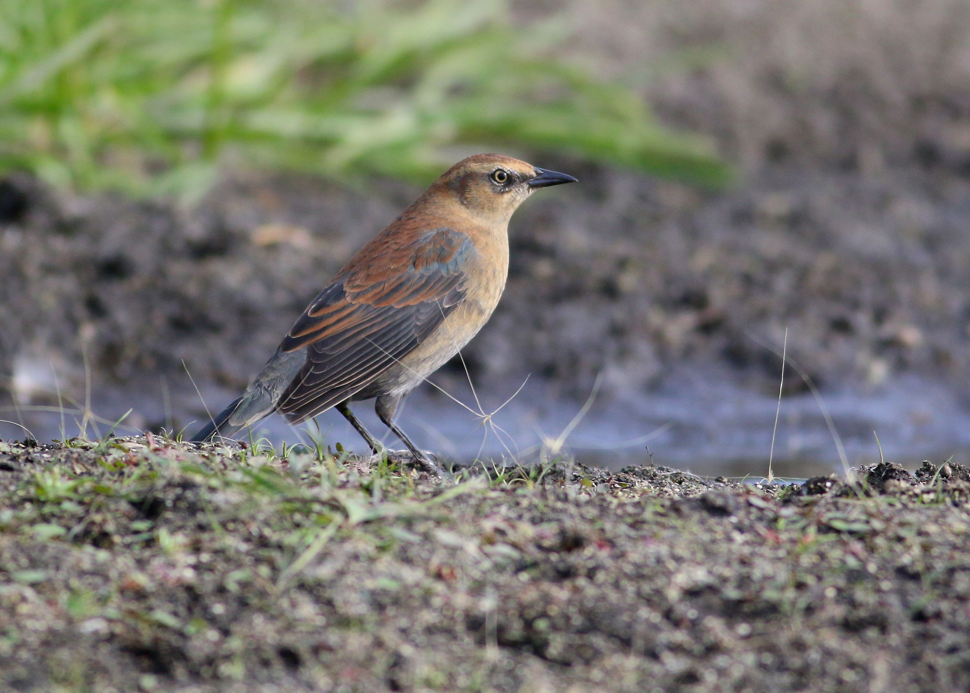 October 5, 2014 Murray Marsh, Alberta